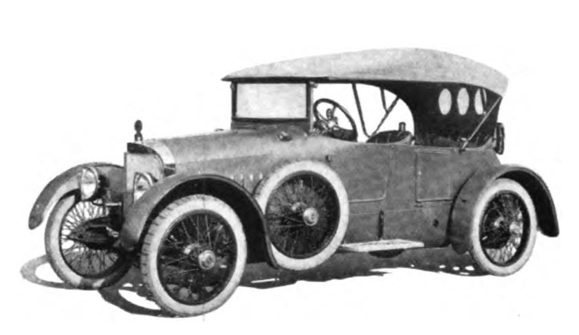 Biddle Model D Custom Sporting Type (1917)